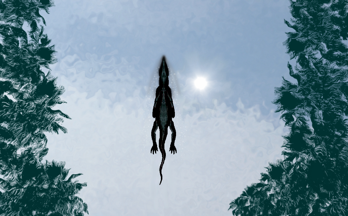 A Lazarussuchus dvoraki takes a breath while swimming in a river on an Early-Miocene day in the Czech Republic. Lazarussuchus was a small lizard-like predator and both the most primitive known and youngest known member of the Choristodera.